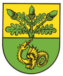 Coat of arms of Jakobsweiler